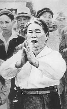 Sayo Kitamura(Japanese New Religion "Tensho Kotaijingu-Kyo" Founder)